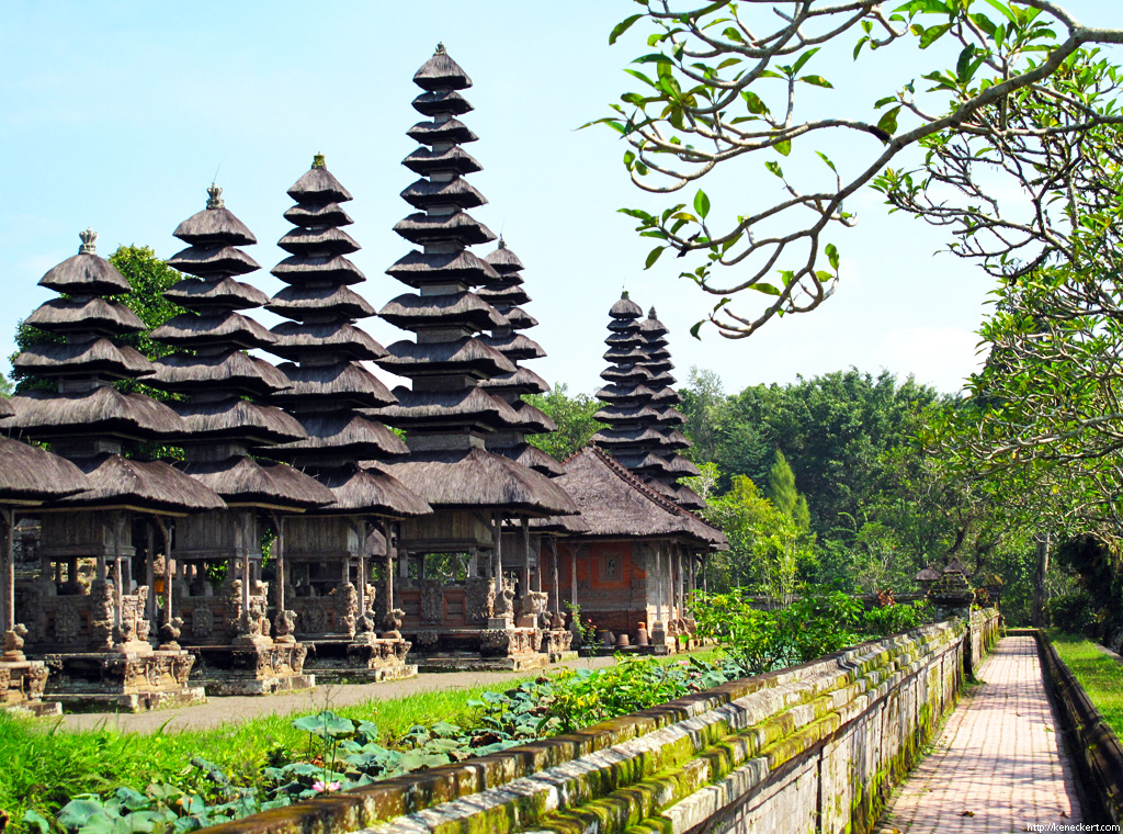 Temple peaks at Taman Ayun, Bali, Indonesia